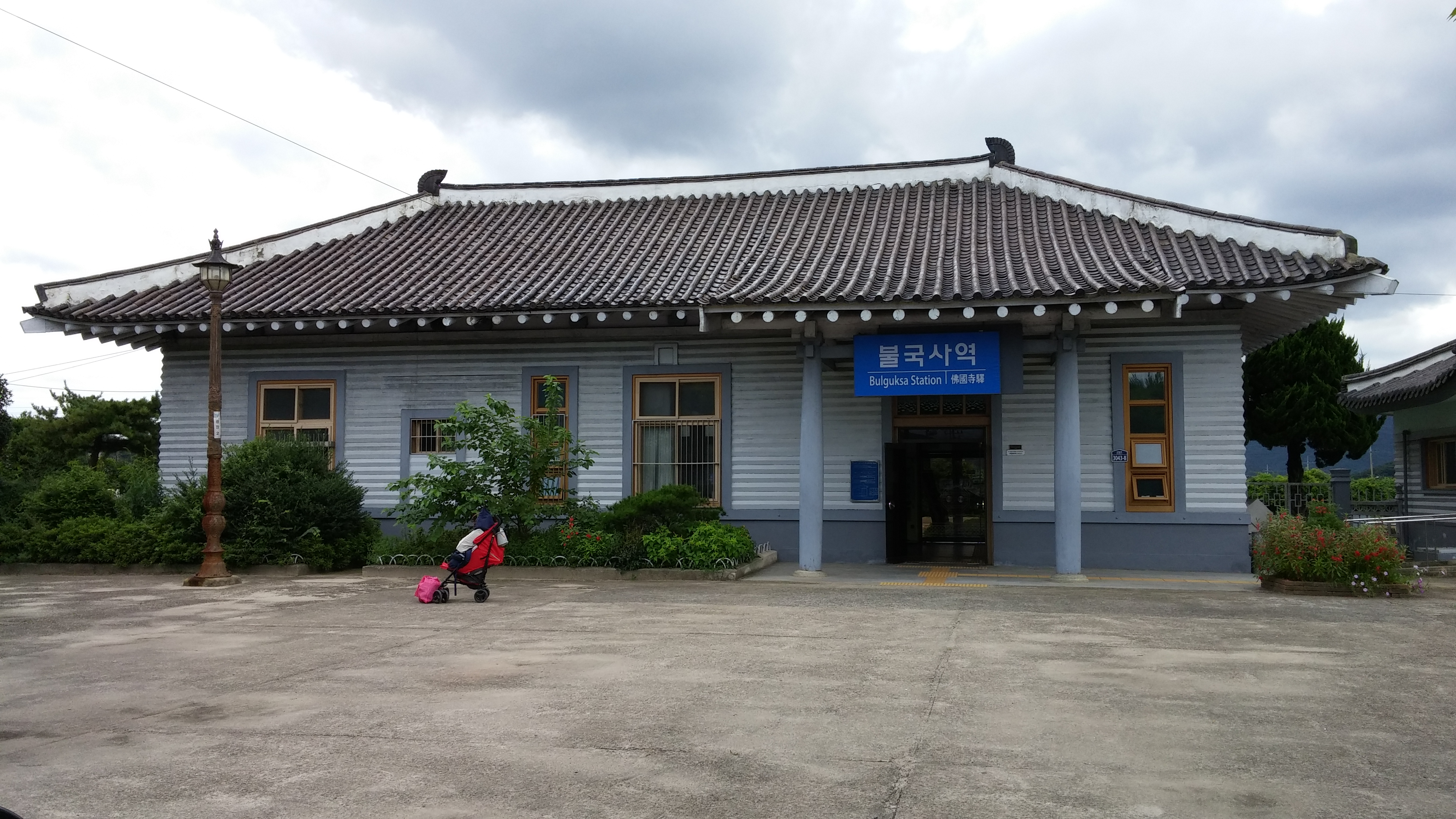 Bulguksa Station (Donghaenambu Line), Gujeong-dong, Gyeongju-si, Gyeongsangbuk-do